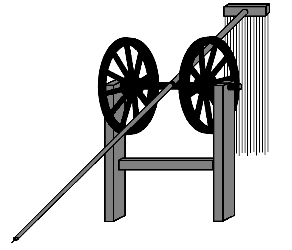 Jiche traction trebuchet, as described in Mozi 52.26, Joseph Needhams Science and Civilisation in China (1994) and Liang Jiemings Chinese Siege Warfare: Mechanical Artillery and Siege Weapons of Antiquity, an Illustrated History (2006).